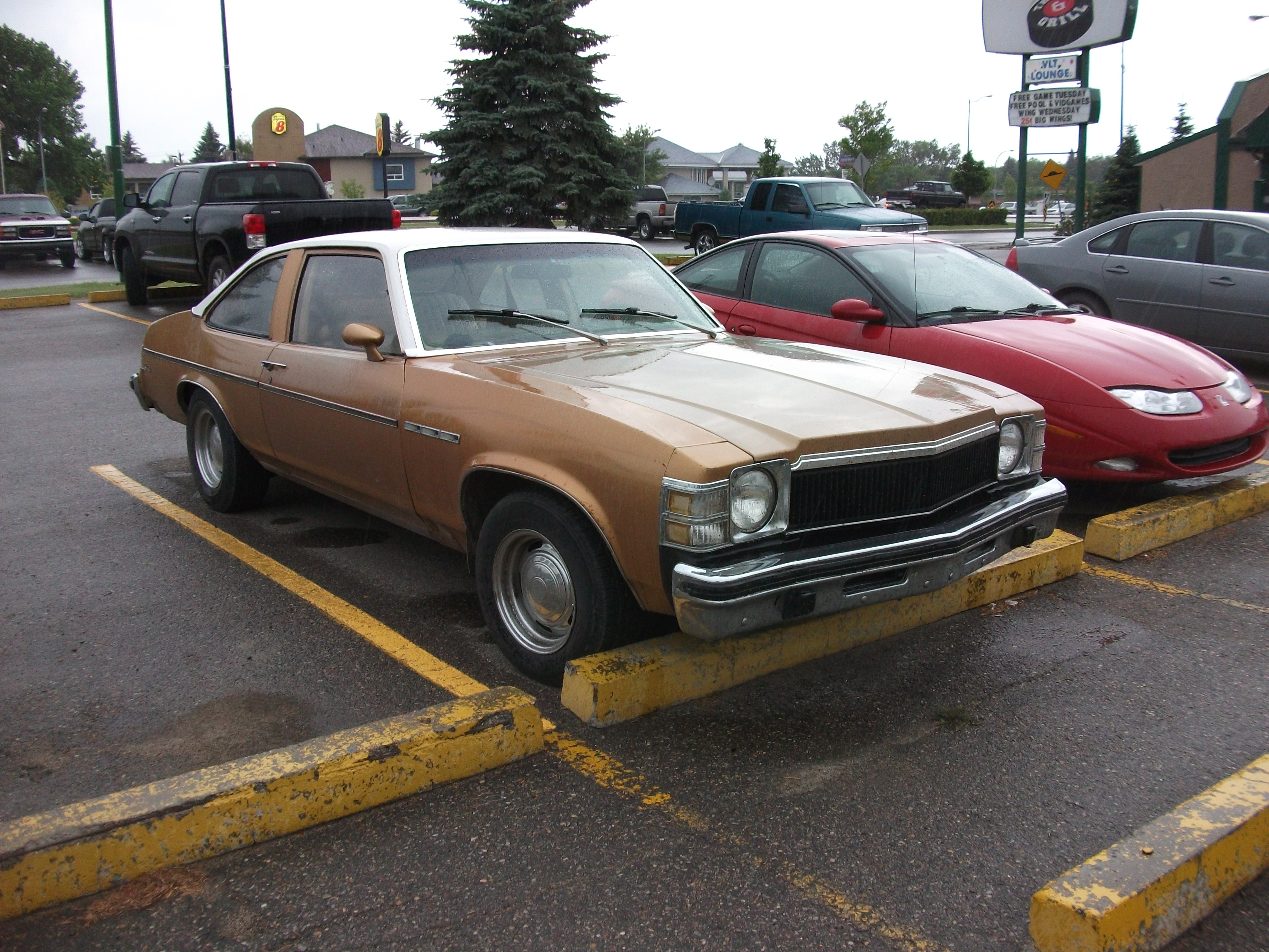 Buick Skylark - Buick's take on the Chevrolet Nova.